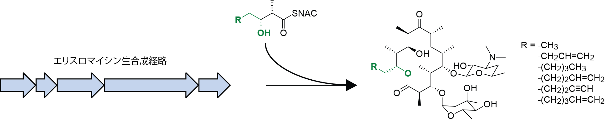 Example 4 of combinatorial biosynthesis (Japanese).